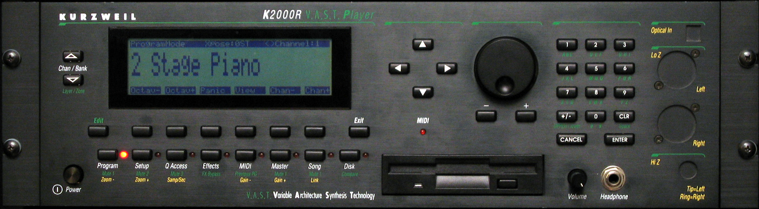 A picture of a Kurzweil K2000R rack-mount synthesizer.